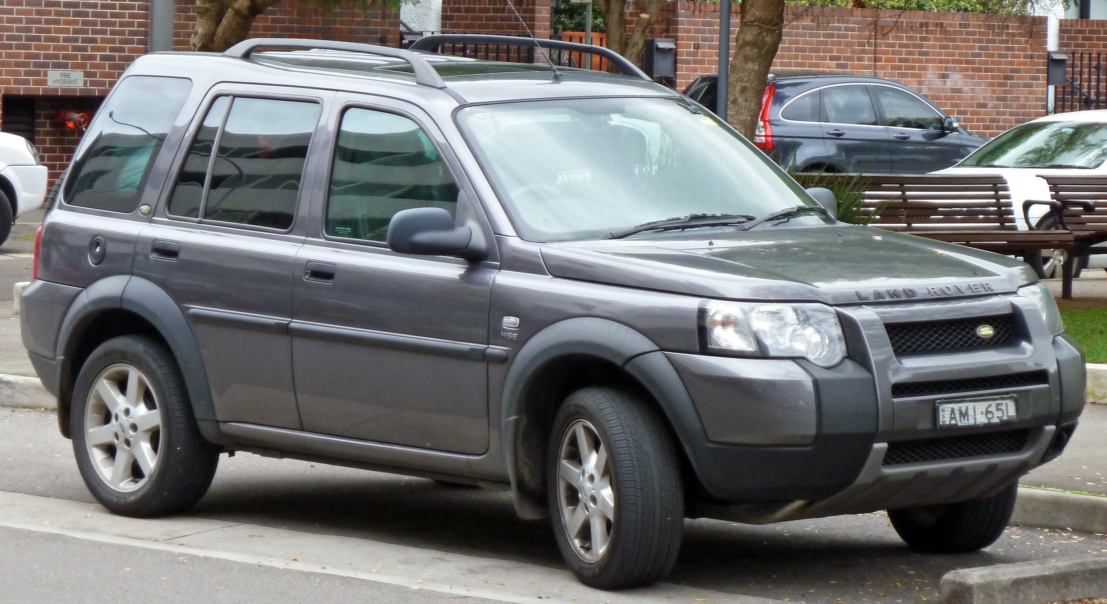 2005 Land Rover Freelander HSE td4 wagon. Photographed in Zetland, New South Wales, Australia.